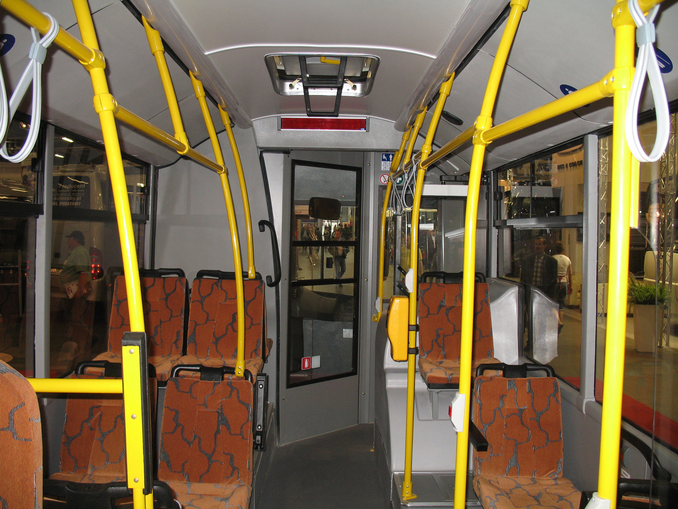 MAZ 203 bus (reg. 8AB T 4383) in Kielce, Poland. Built 2011. Transexpo 2011.